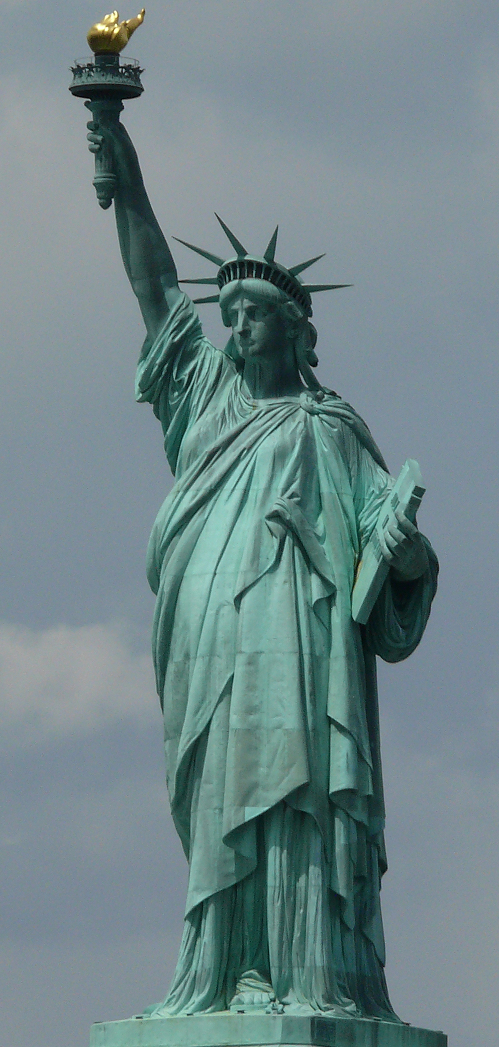 Statue of Liberty, also known as Lady Liberty her official name is Liberty Enlightening the World. It was dedicated on October 28, 1886, and is a monument commemorating the centennial of the signing of the United States Declaration of Independence, given to the United States by the people of France to represent the friendship between the two countries established during the American Revolution.